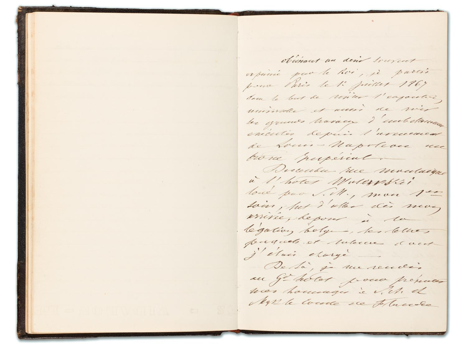 first page from the travel diary belonging to Adrien Goffinet